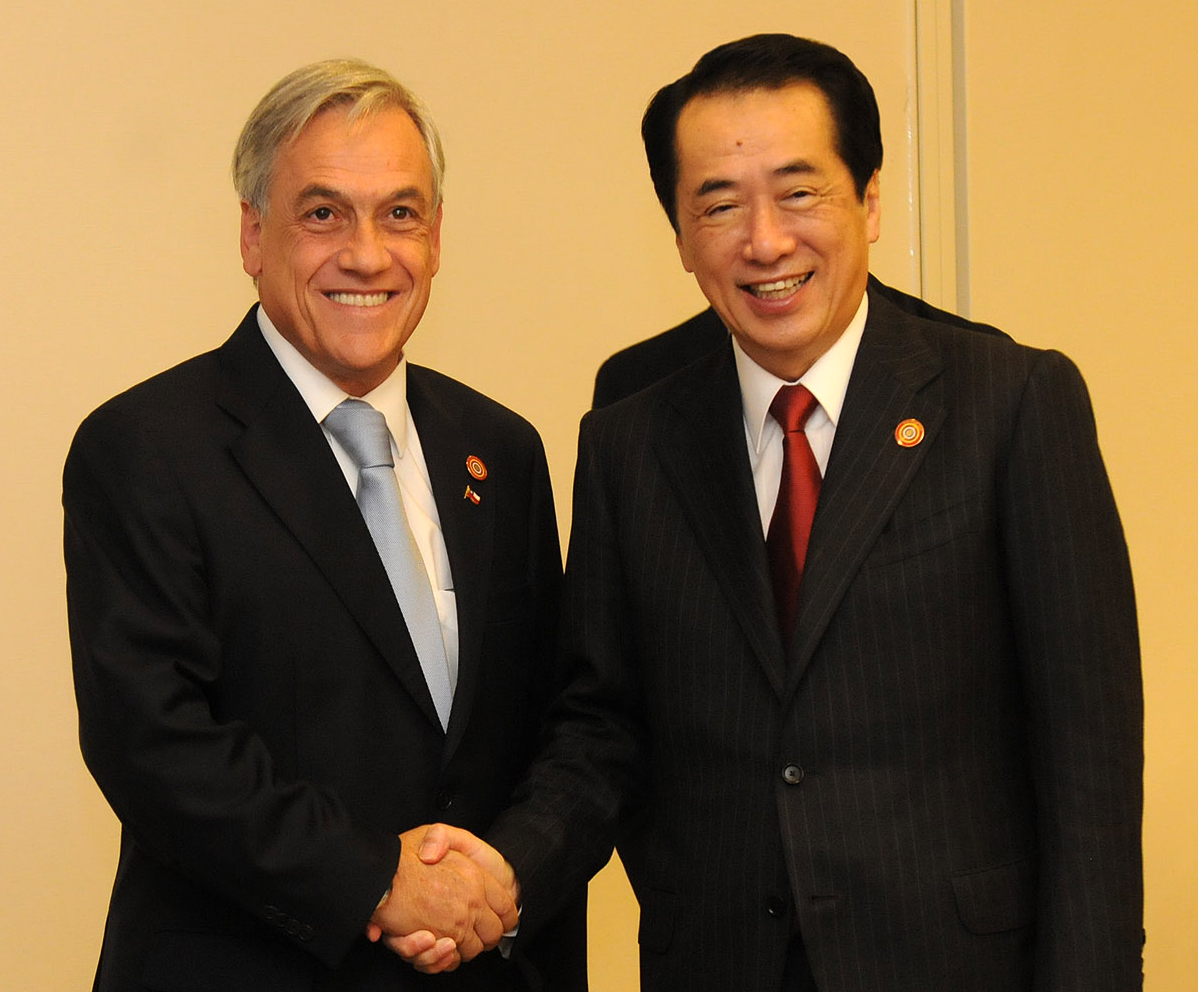 Sebastián Piñera, President, met with Naoto Kan, Prime Minister, at the site of the Asia-Pacific Economic Cooperation Leaders' meeting in Yokohama City, Kanagawa Prefecture on November 14, 2010.